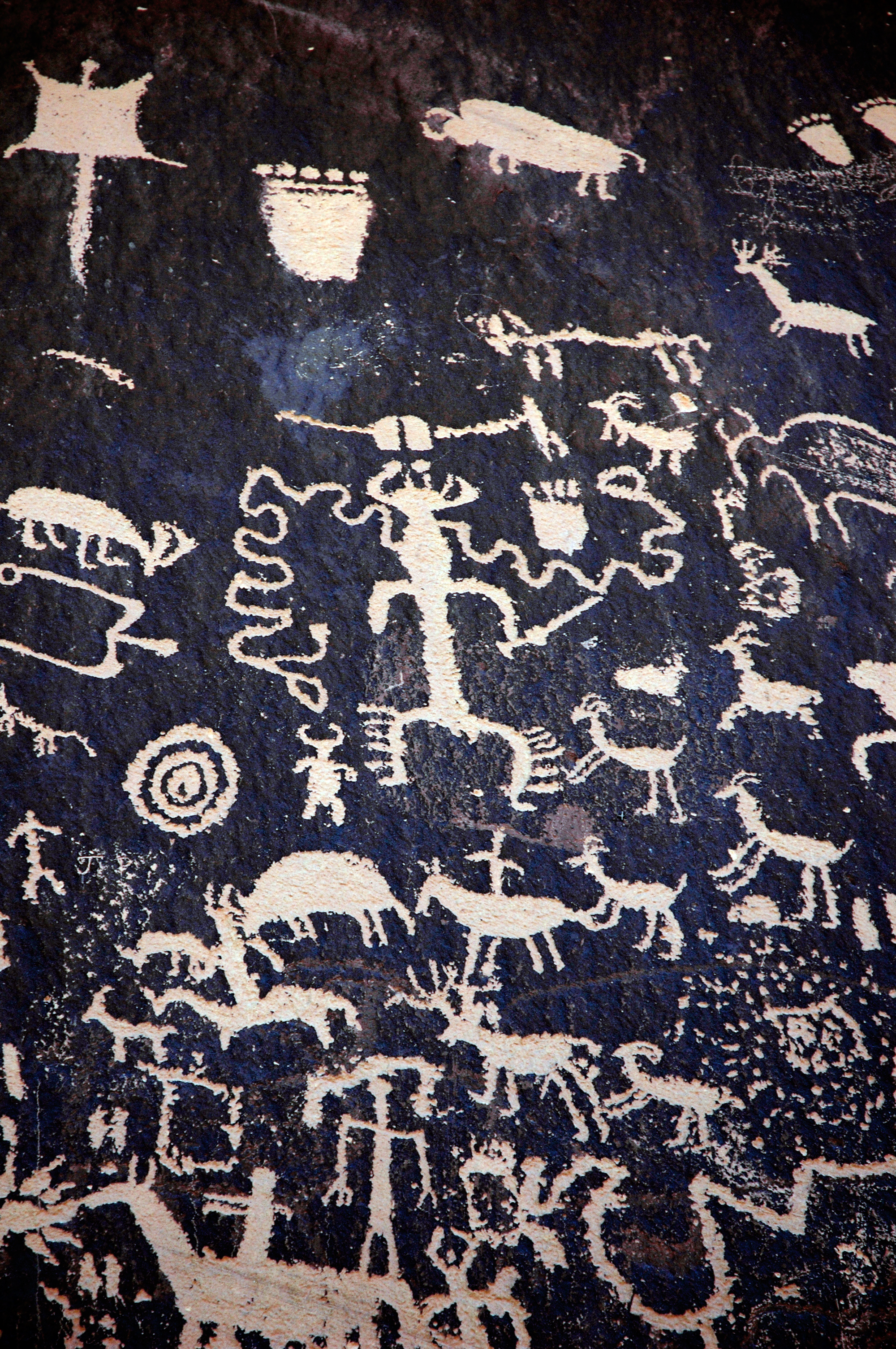 American Indian petroglyphs at Newspaper Rock State Historic Monument, Utah, USA.